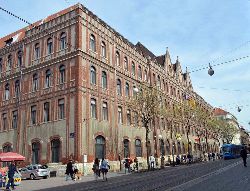 Main Post office building in Zagreb, Croatia.